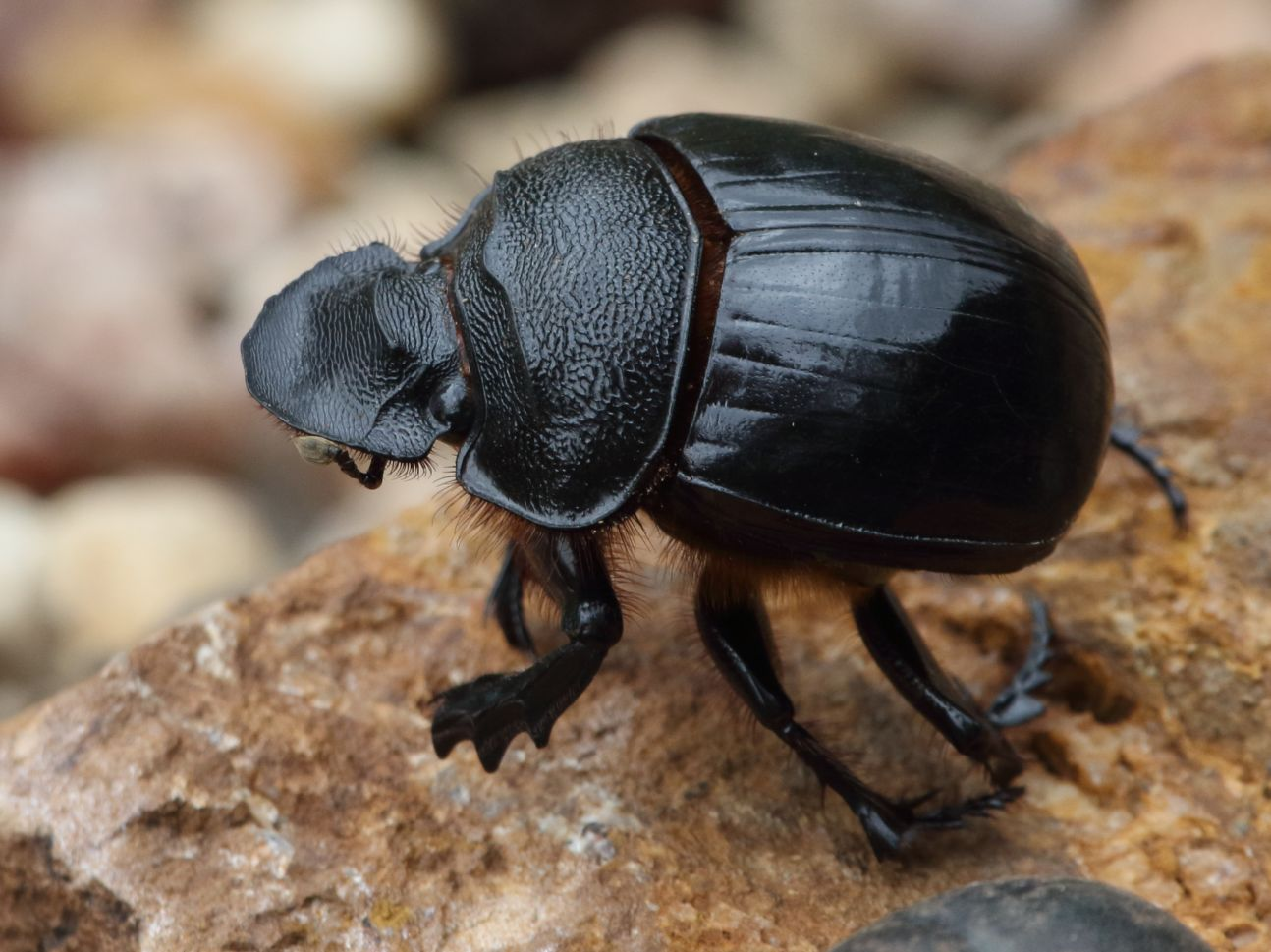 Female Heliocopris neptunus, a dung beetle; at Zebra Hills Lodge, Manyoni Private Game Reserve, KwaZulu-Natal, South Africa. DungBeetleMAP record no.1144